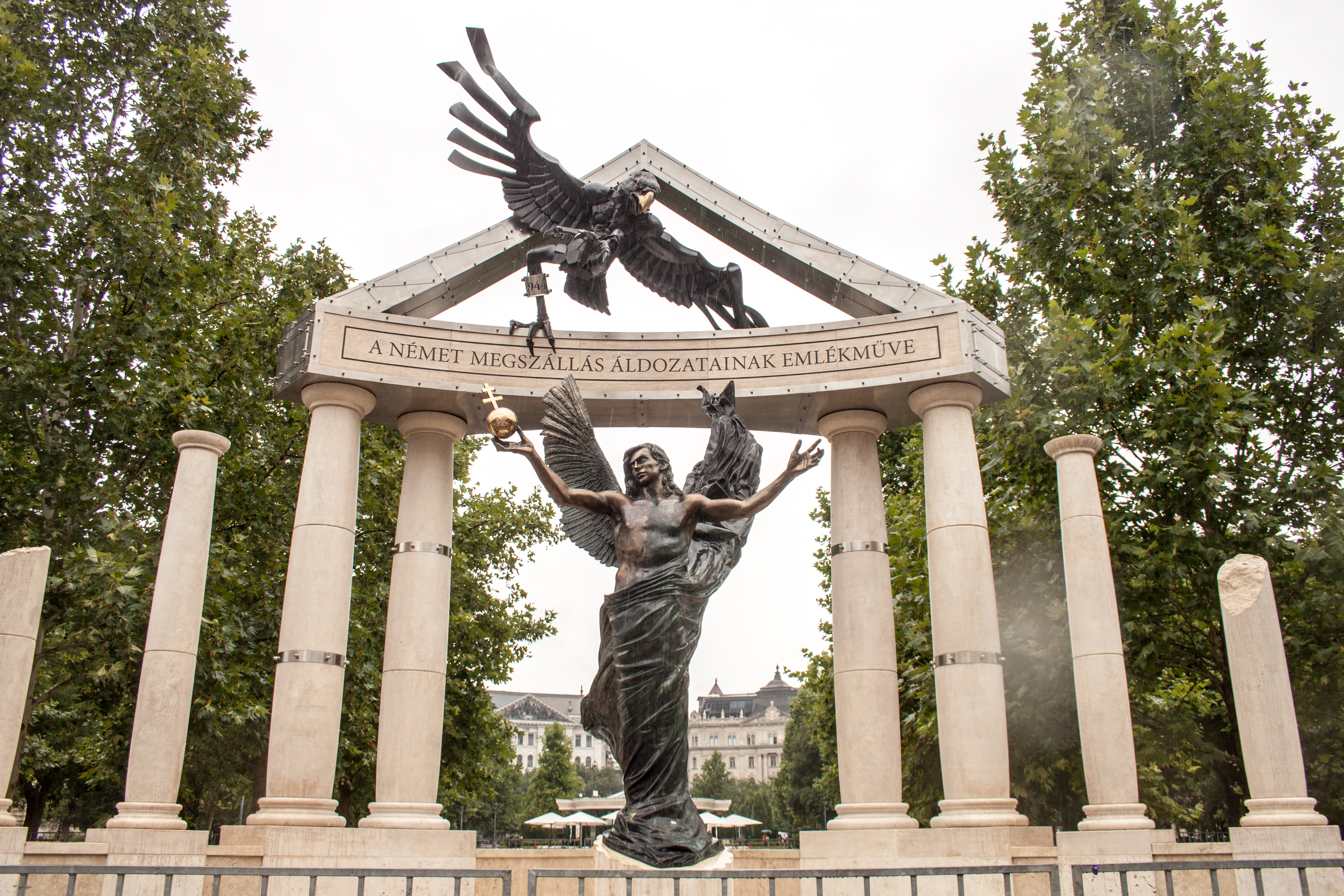 Monument to the victims of the German occupation, Szabadság square, Budapest